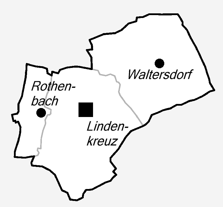 District-Map of Lindenkreuz in Thuringia.